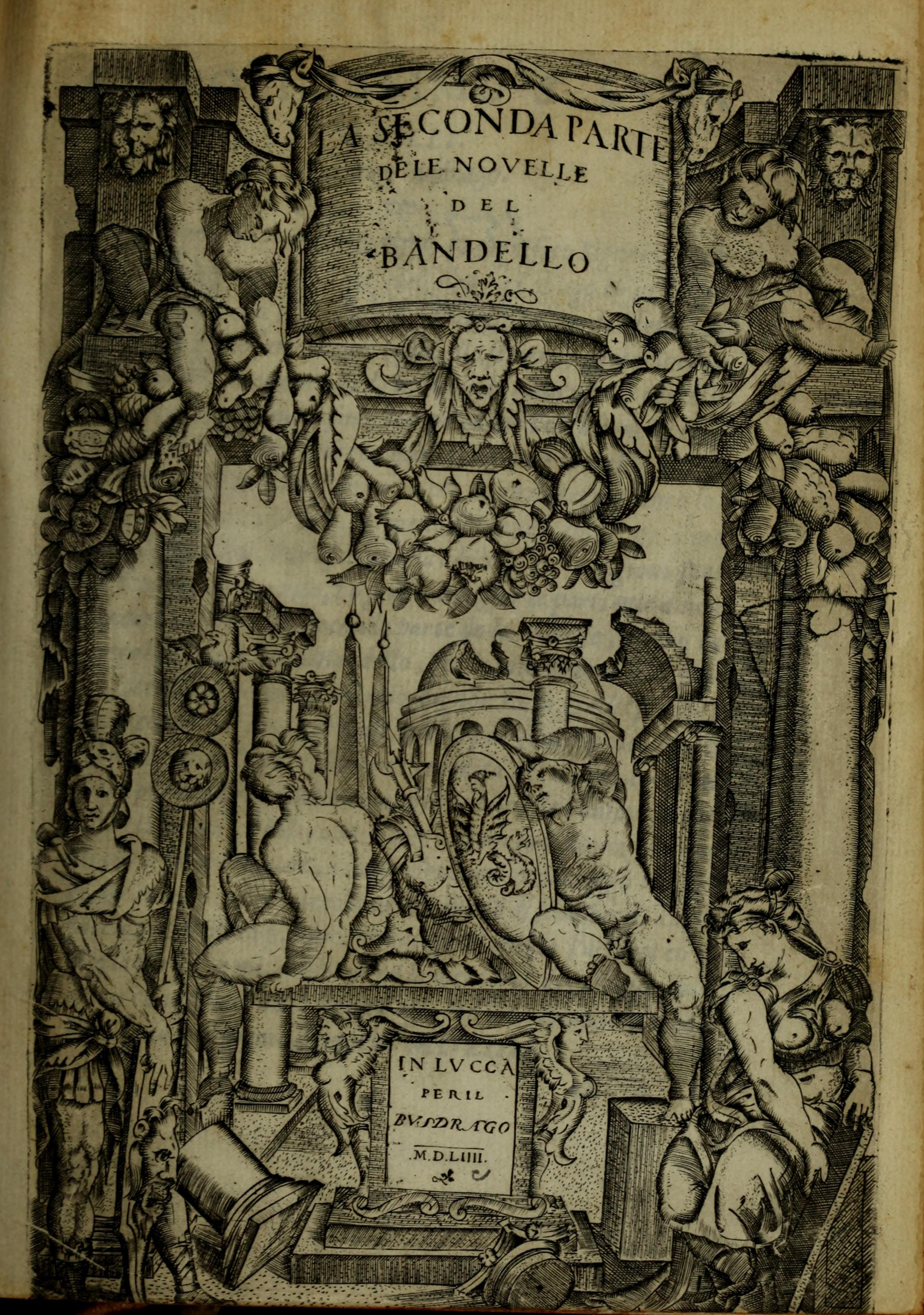 Title page of Matteo Bandello: La prima [seconda, terza] parte de le Novelle del Bandello. Lucca 1554, seconda parte. Location: Boston Public Library